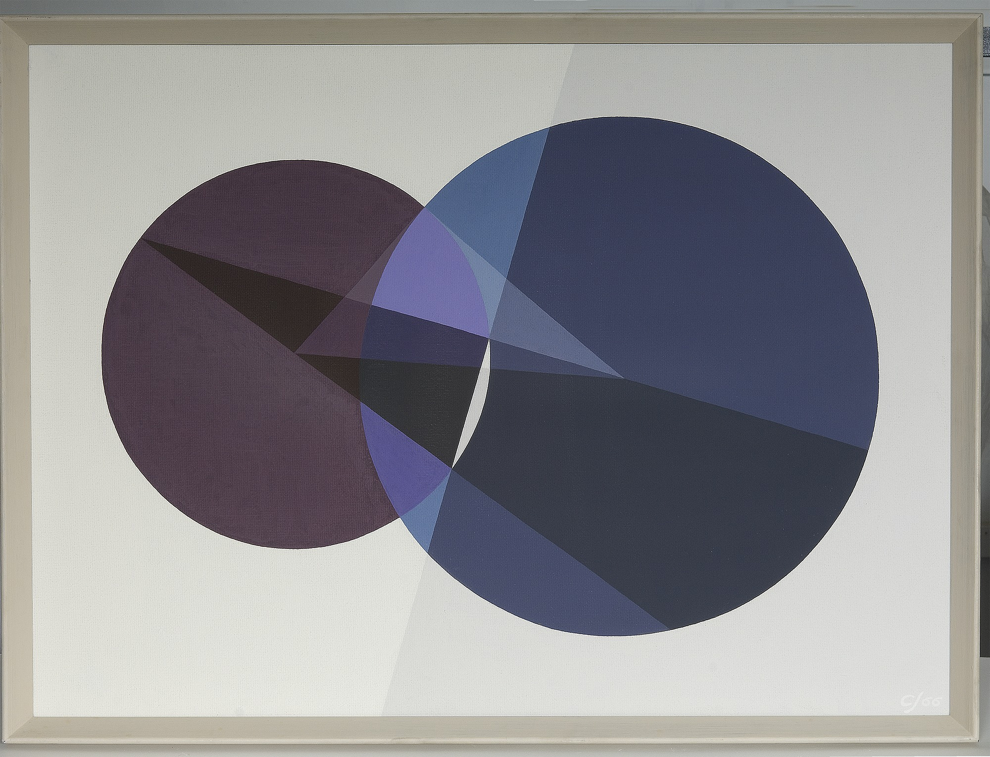 Painting. "Polar Line of a Point and a Circle (Apollonius)," by Crockett Johnson. 1979.1093.26.DESCRIPTION In 1966, Crockett Johnson carefully read Nathan A. Court's book College Geometry, selecting diagrams that he thought would be suitable for paintings. In the chapter on harmonic division, he annotated several figures that relate to this painting. The work shows two orthoganol circles, that is to say two circles in which the square of the line of centers equals the sum of the squares of the radii. A right triangle formed by the line of centers and two radii that intersect is shown. The small right triangle in light purple in the painting is this triangle. Crockett Johnson's painting combines a drawing of this triangle with a more complex figure used in a discussion of further properties of lines drawn in orthoganal circles. In particular, suppose that one draws a line segment from a point outside a circle that intersects it in two points, and selects a fourth point on the line that divides the segment harmonically. For a single exterior point, all these such points lie on a single line, perpendicular to the line of centers of the two circles, which is called the polar line. The painting is #38 in the series. It has a background in two shades of cream, and a light tan wooden frame. It shows two circles that overlap slightly and have various sections. The circles are in shades of blue, purple and cream. The painting is signed: CJ66. References: Nathan A. Court, College Geometry (1964 printing), p. 175–78. This volume was in Crockett Johnson's library. T. L. Heath, ed., Apollonius of Perga: Treatise on Conic Sections (1961 reprint). This volume was not in Crockett Johnson's library.